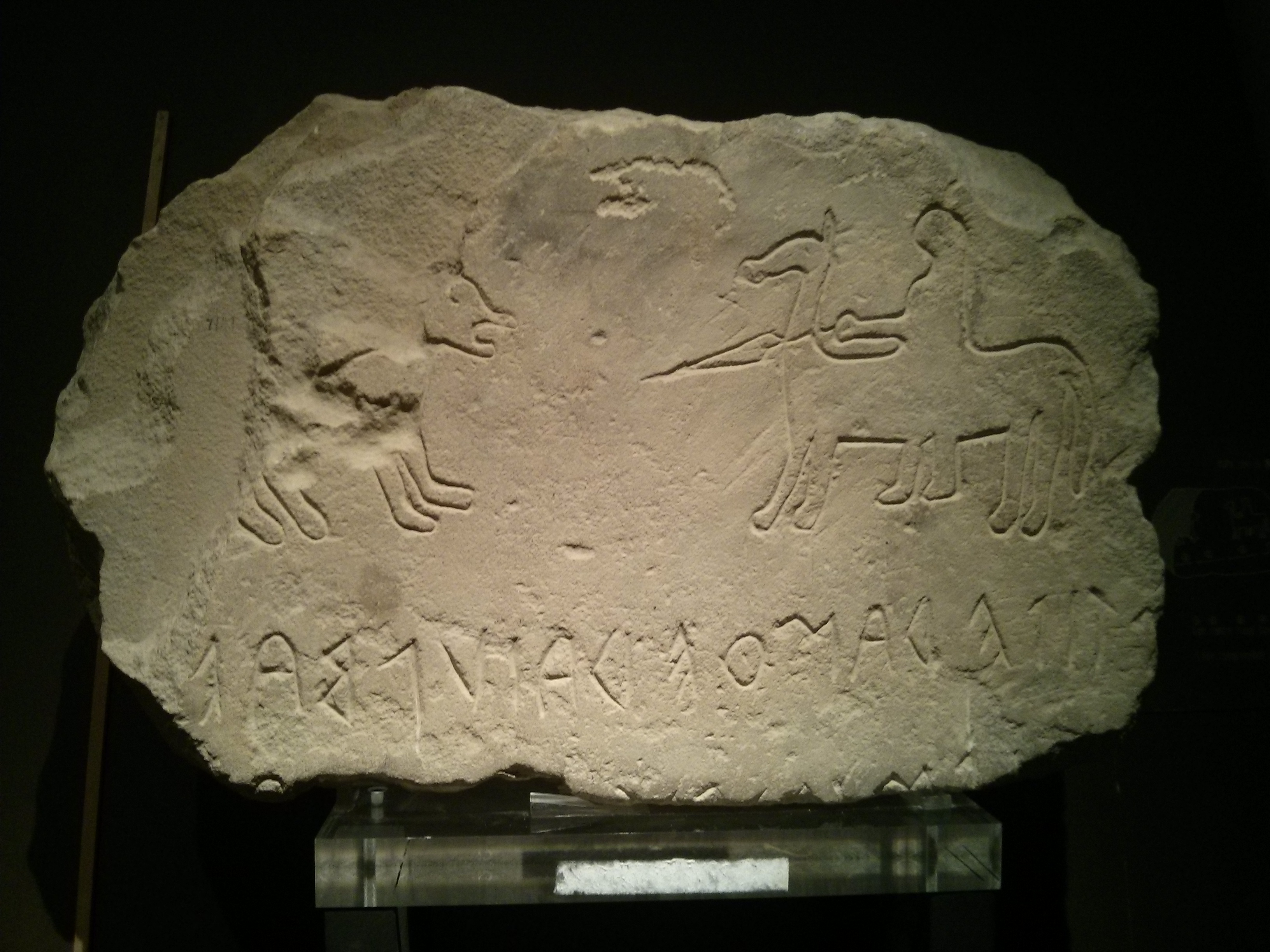 Iscrizioni picene - Stele di Novilara Museo archeologico nazionale delle Marche Native nameMuseo archeologico nazionale delle MarcheLocationAncona, Marche, ItalyCoordinates43° 37′ 23.39″ N, 13° 30′ 39.38″ E Established1863 Web page control : Q3867709 VIAF: 130879044 ISNI: 0000 0001 2158 0954 LCCN: nr97041772 SUDOC: 027703002 WorldCat institution QS:P195,Q3867709 This is a photo of a monument which is part of cultural heritage of Italy.